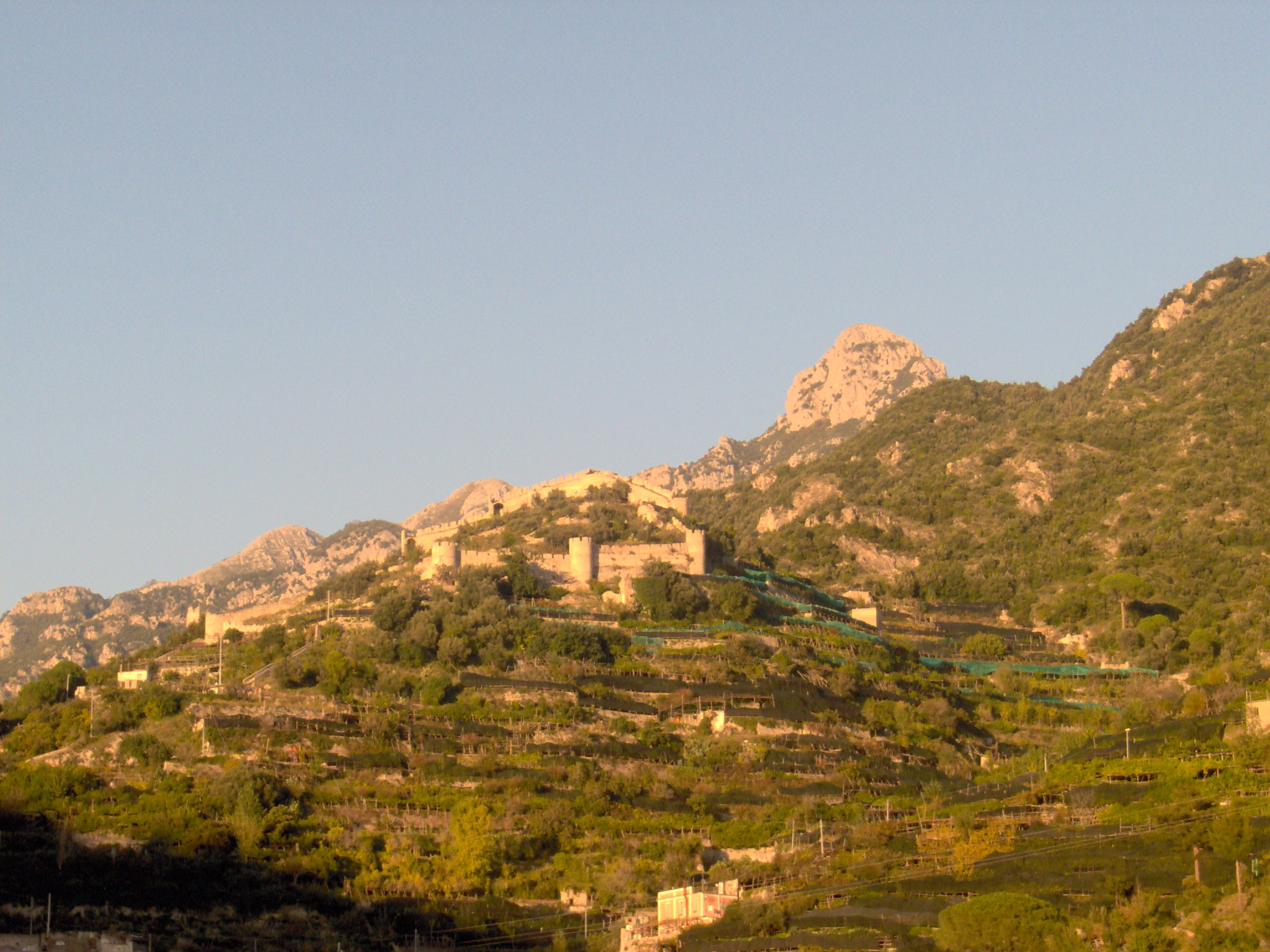 Photo taken in Maiori, Italy